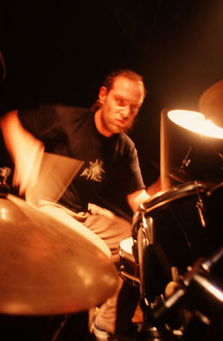 Depicted person: Martin Kearns – drummer